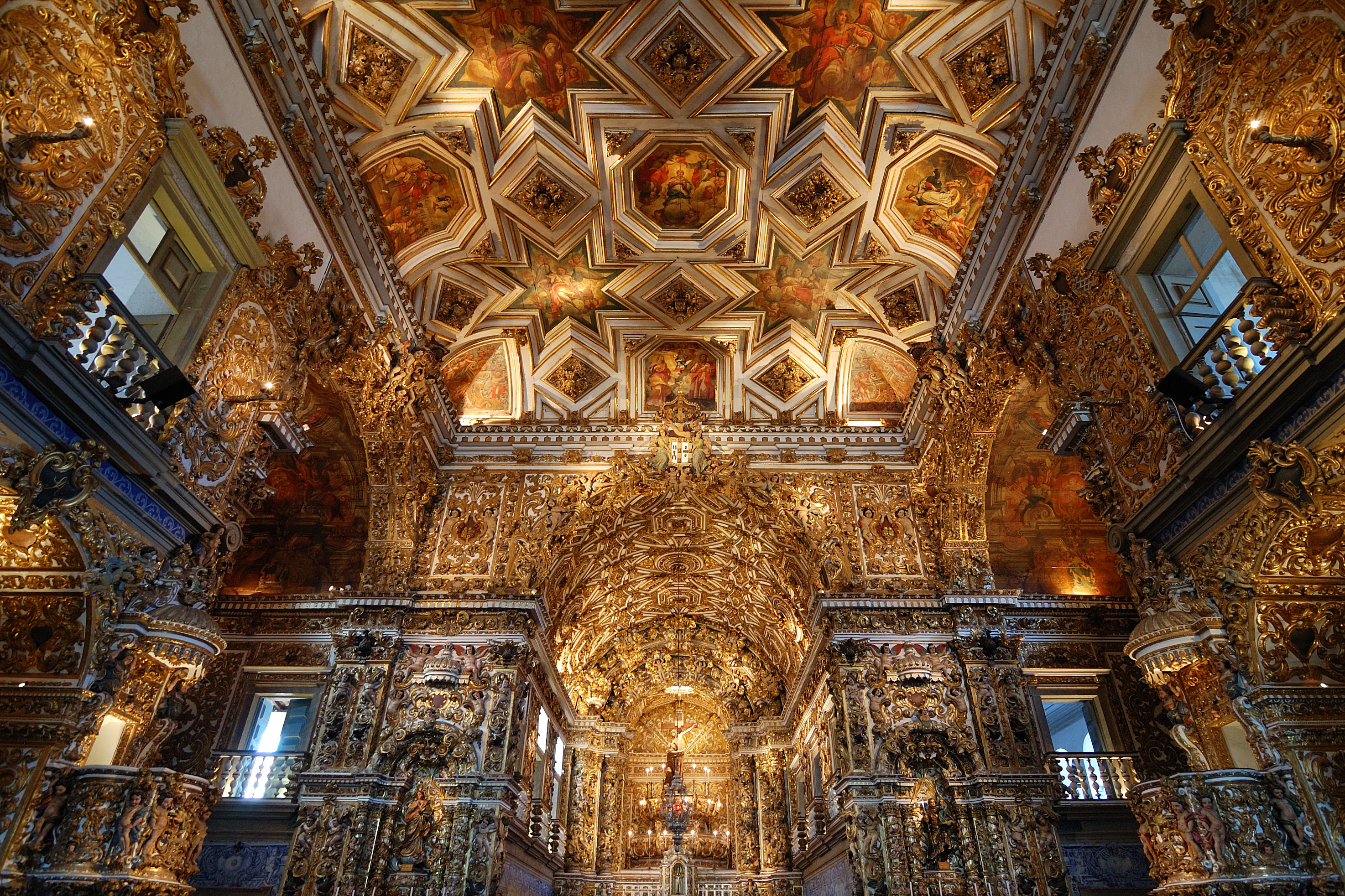 Baroque interior of Saint Francis Church in Salvador, Bahia, Brazil